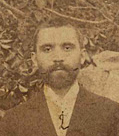 Andrey Toshev in Solun or Thessaloniki